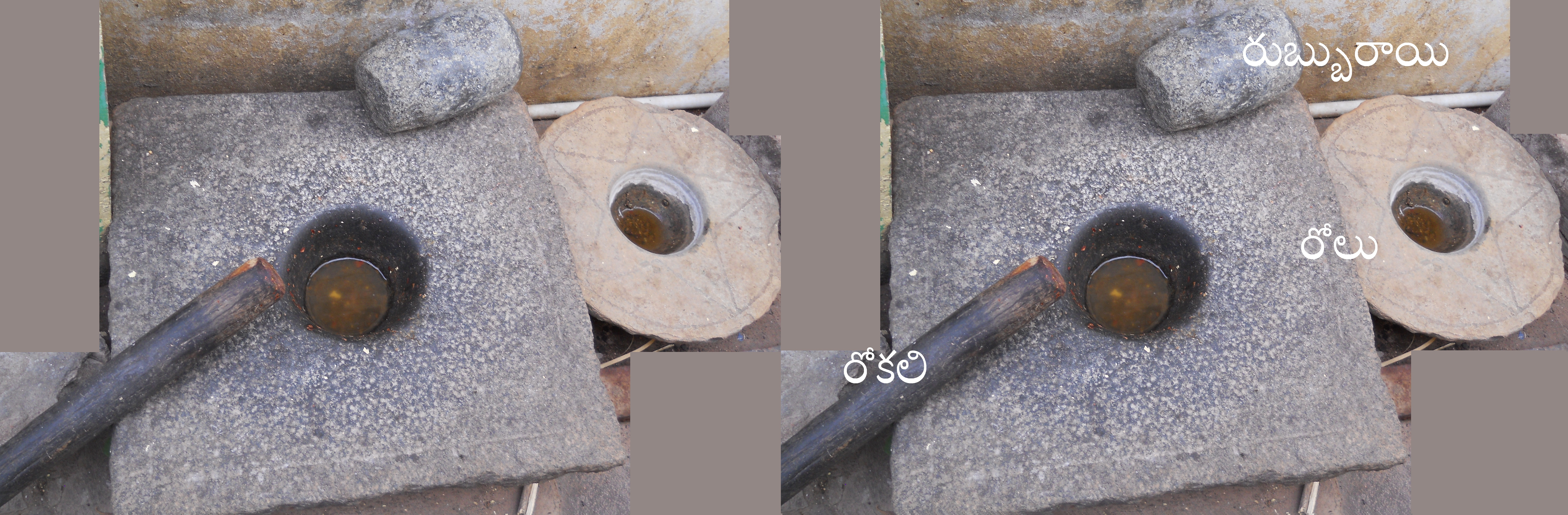 Mortar made with stone and pestle Made with wood in India.